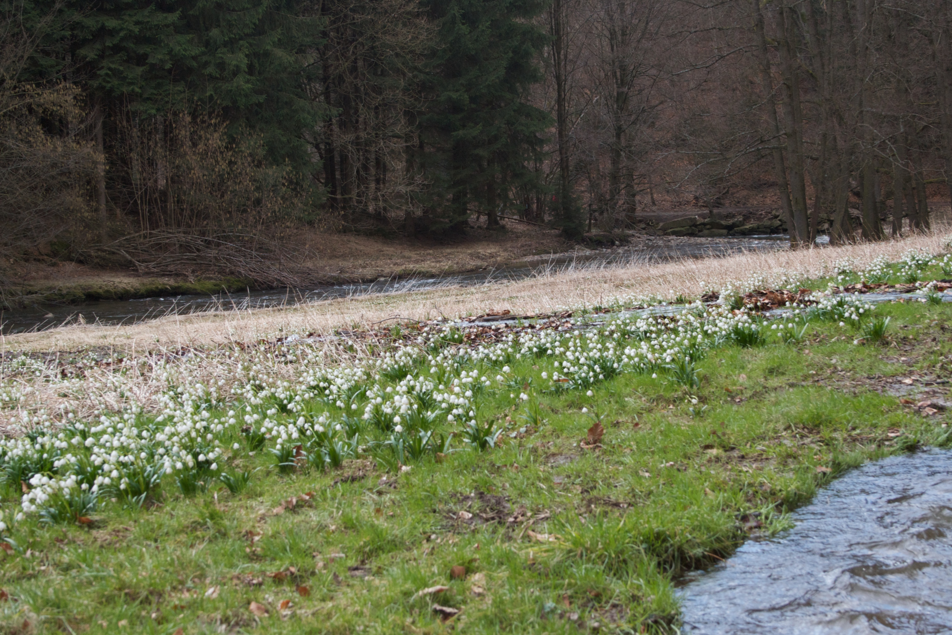 spring snowflake meadows Polenztal